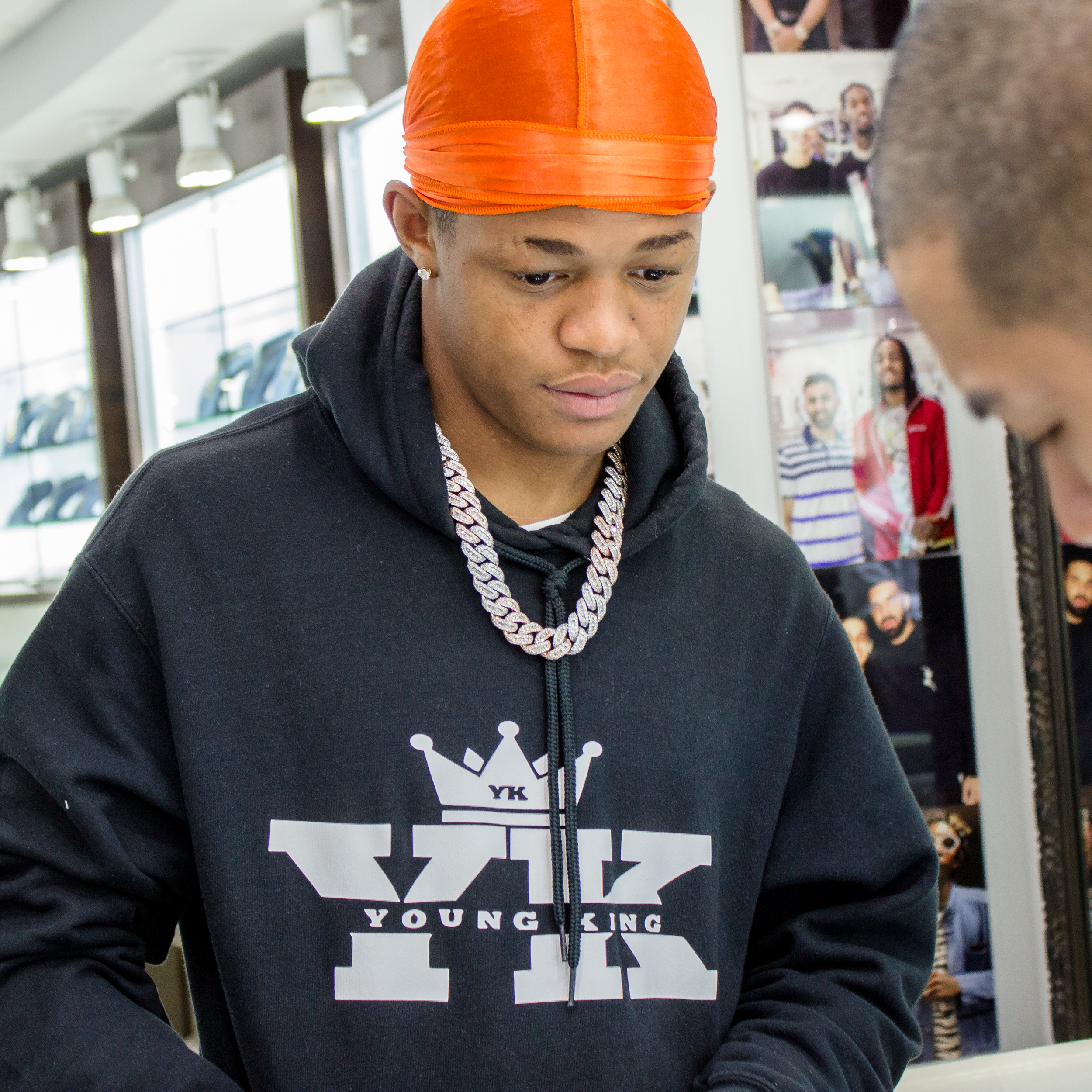 YK Osiris at Icebox in 2019